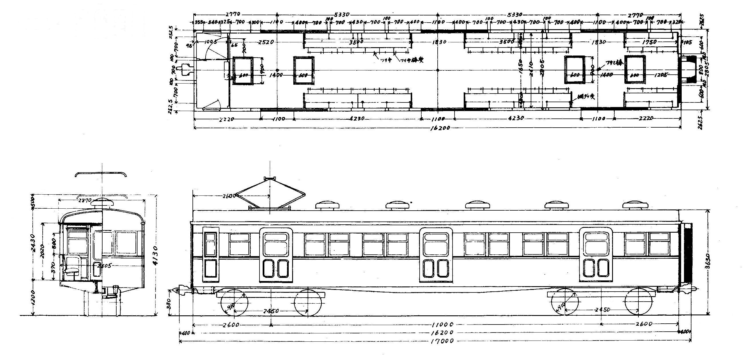 Type drawing of JNR's electric car Moha11